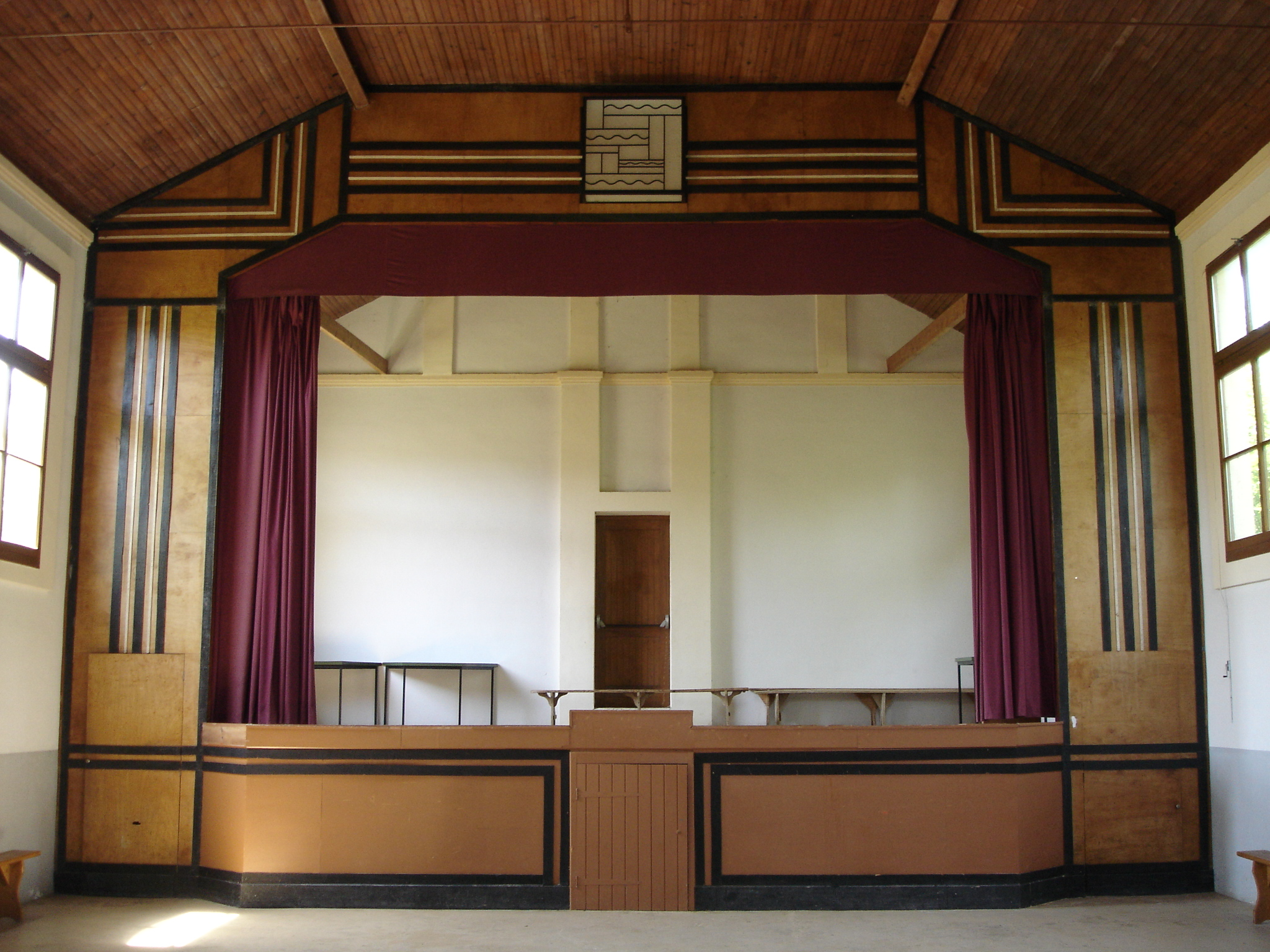 Saint-Laurent sur Save (France)